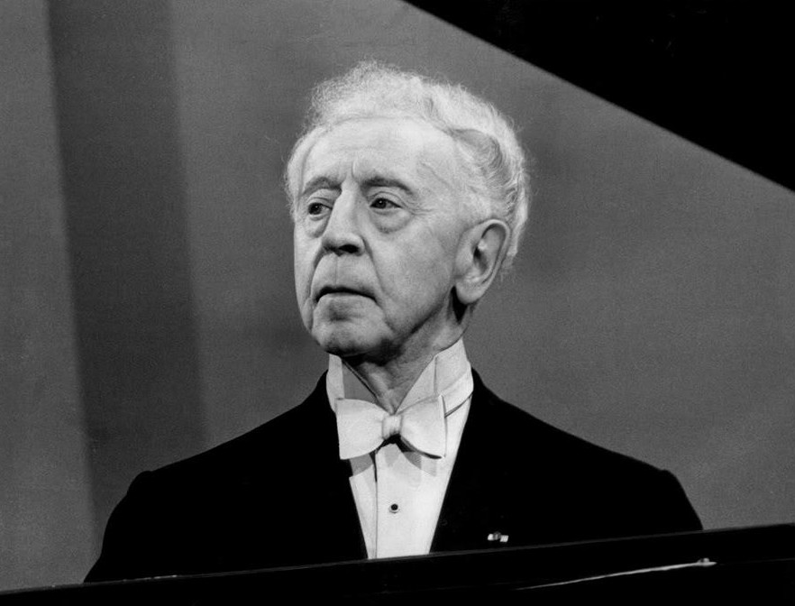 Photo of pianist Artur Rubinstein as he performed on a S. Hurok Presents television special on CBS in 1968. Rubinstein had not performed on television for a decade before this television program.